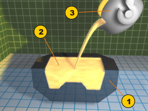 Open casting form illustration